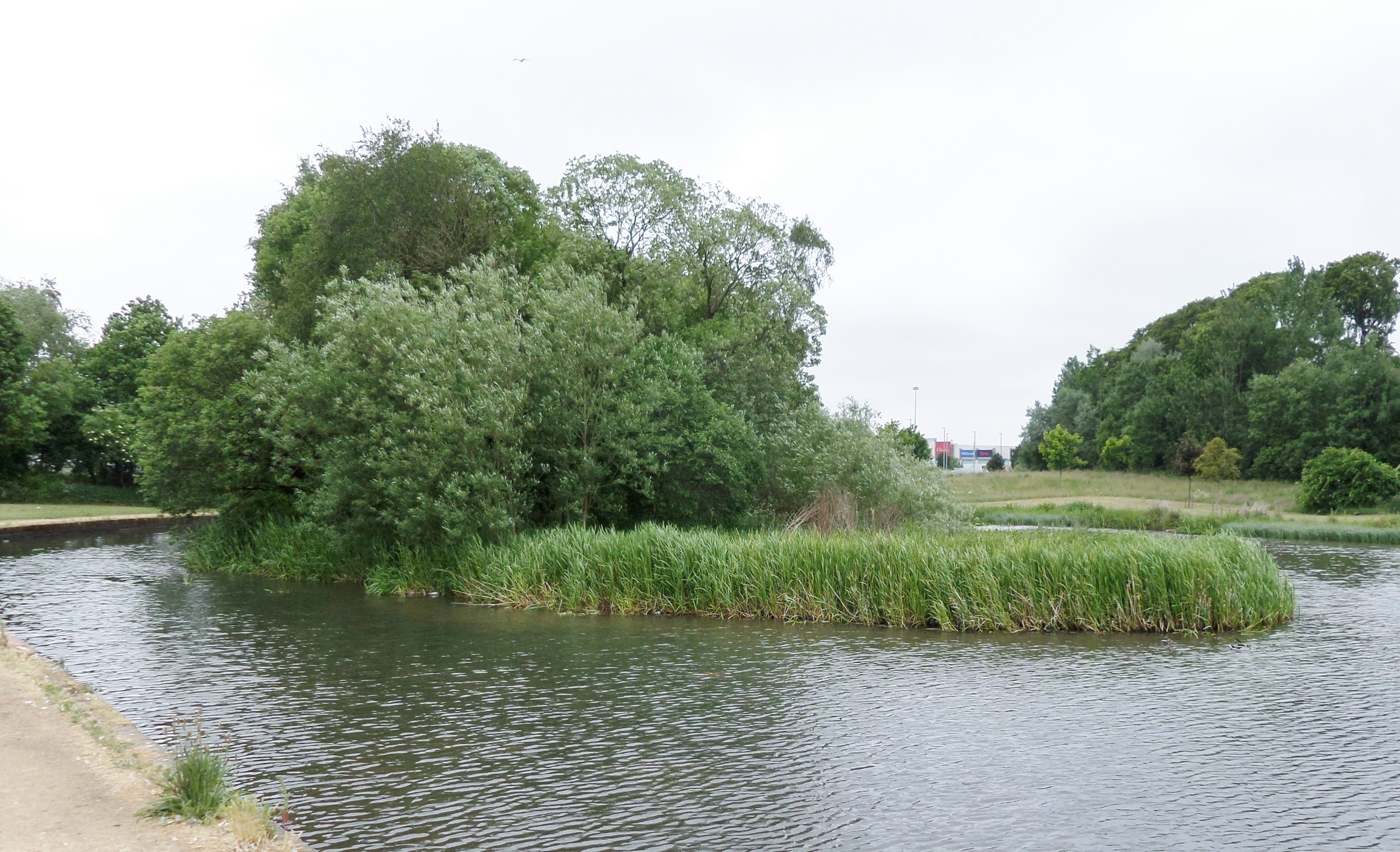 Auchinlea Pond Island, Auchinlea Park, Glasgow